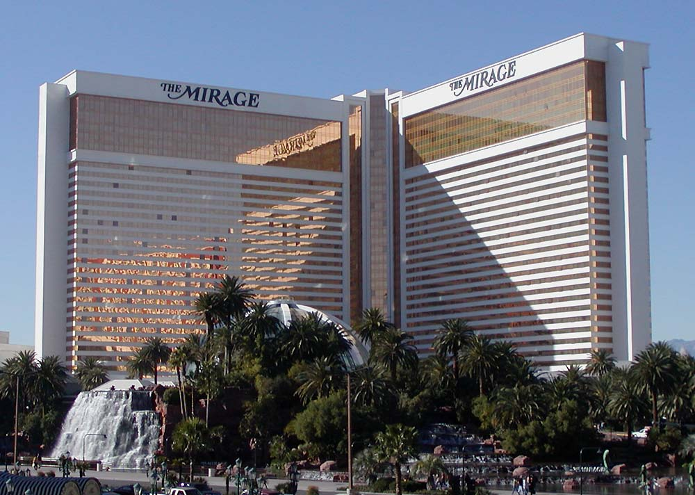 The Mirage in Las Vegas, Nevada.